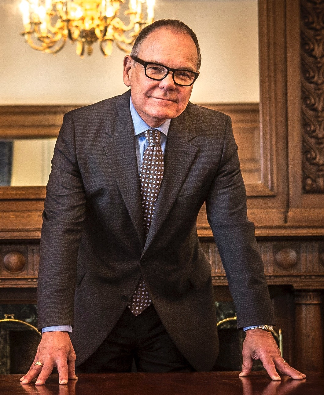 Author, Speaker, Don Tapscott for TOTvs Magazine. photo by Ana Grillo © 2014